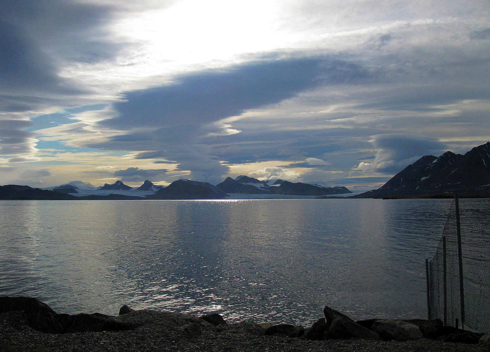 The magic of Svalbard at daybreak - View of Ny Alesund in August 2011